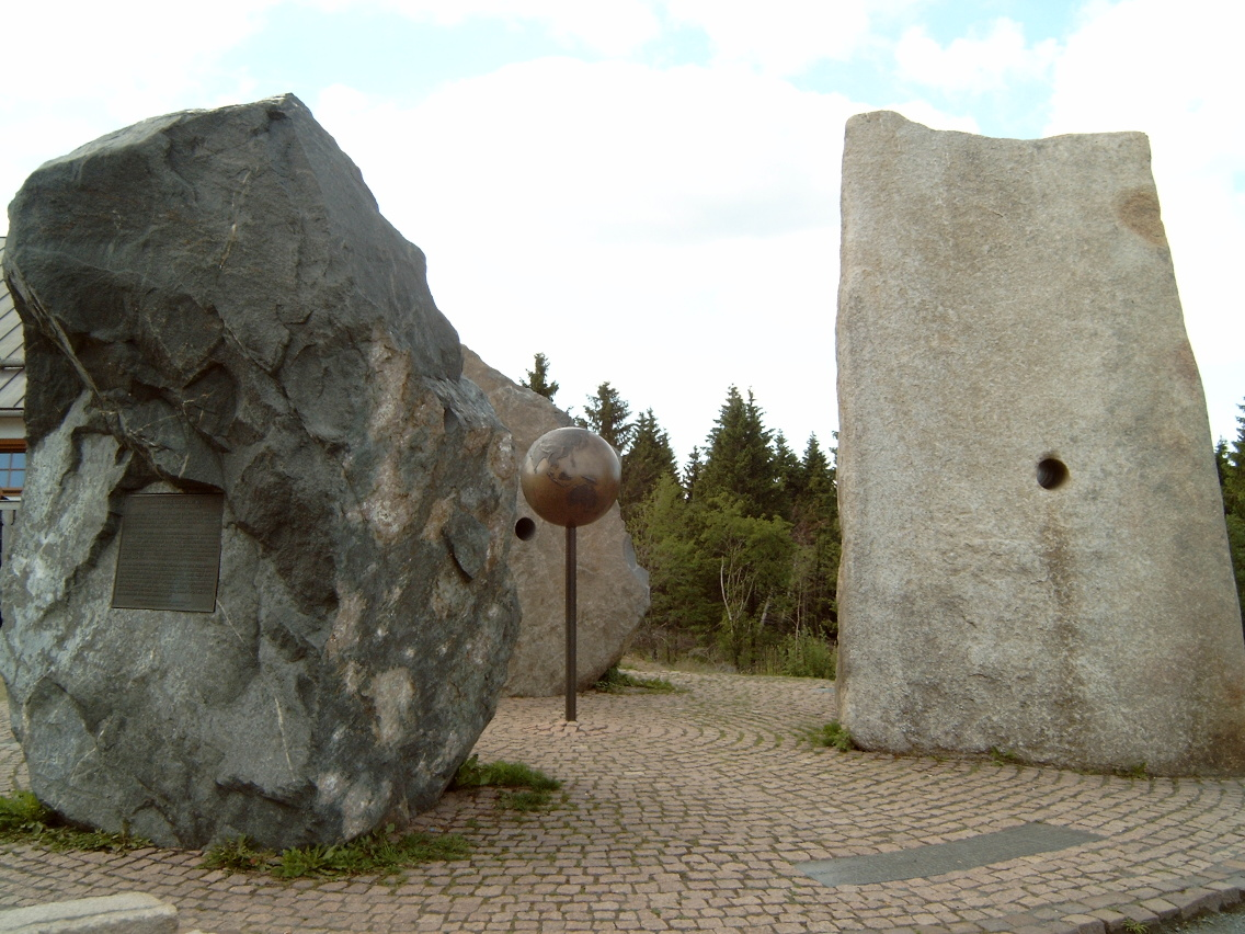 monument to national parks in "Torfhaus/Harz"